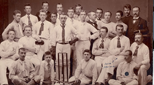 The cricket team from Boldklubben Frem which won the 1892 tournament.